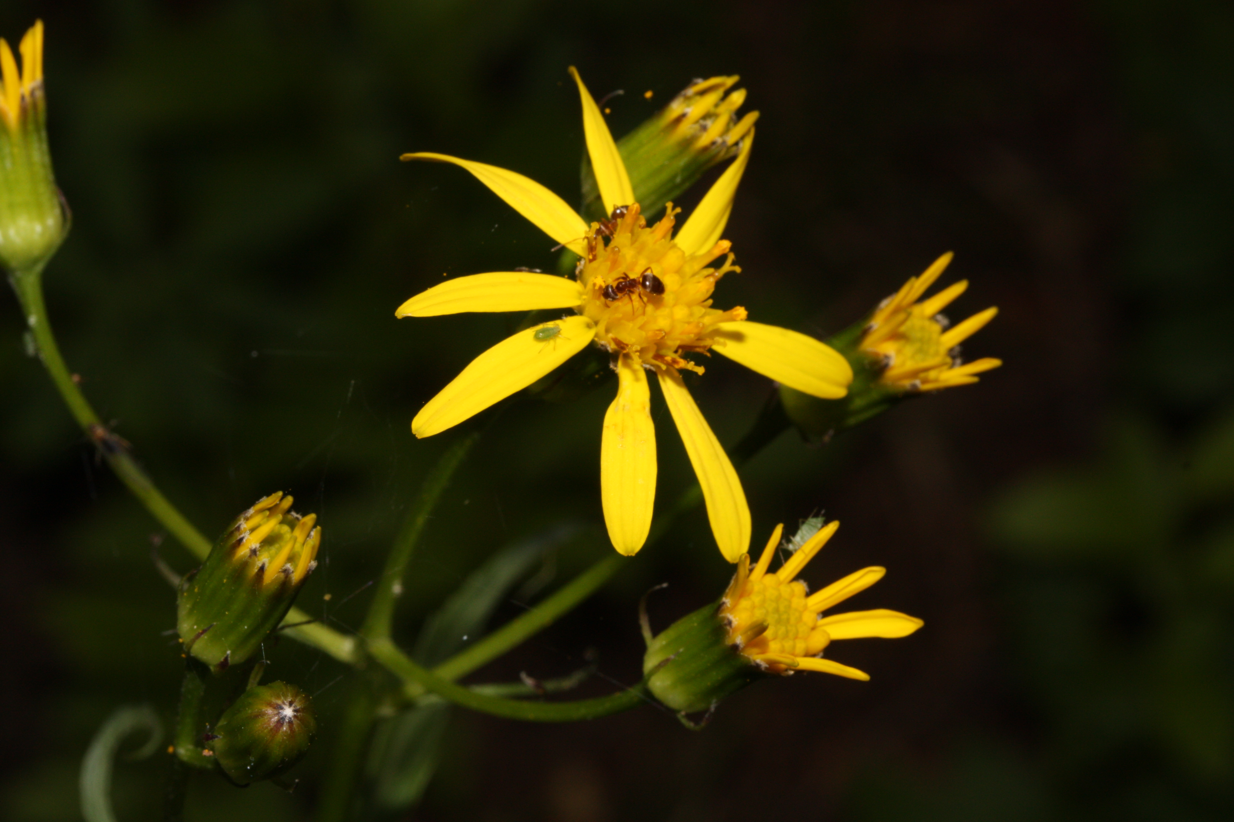 Arrowleaf Ragwort with unidentified Formicidae